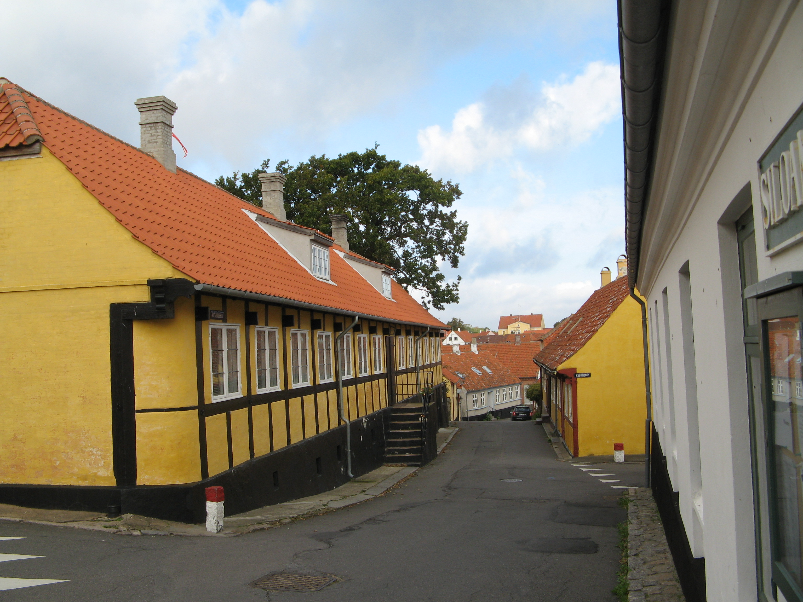 Svaneke, Kirkebakken, alley to the church